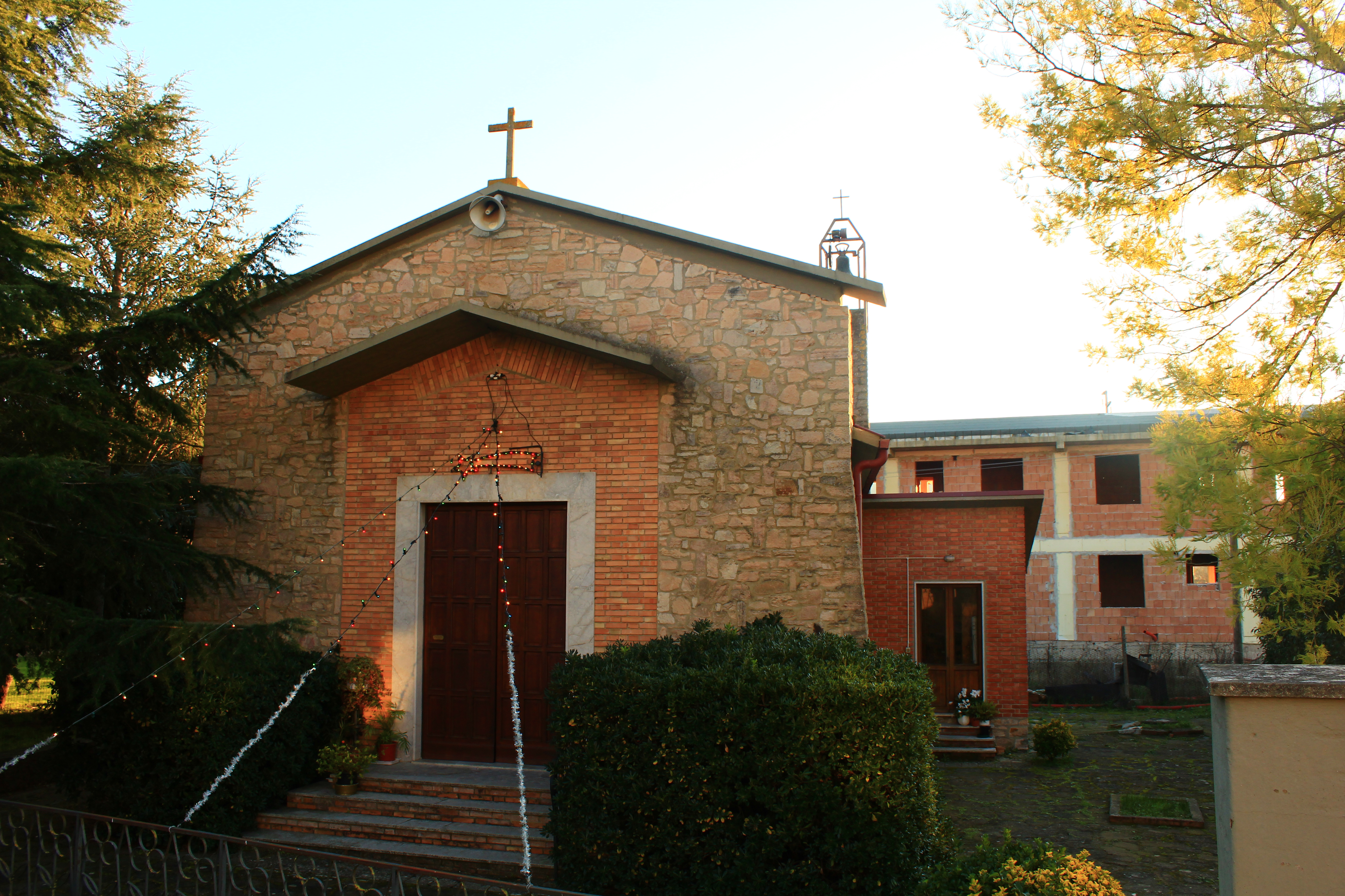 Church of Santa Rita da Cascia in Grilli, Grosseto